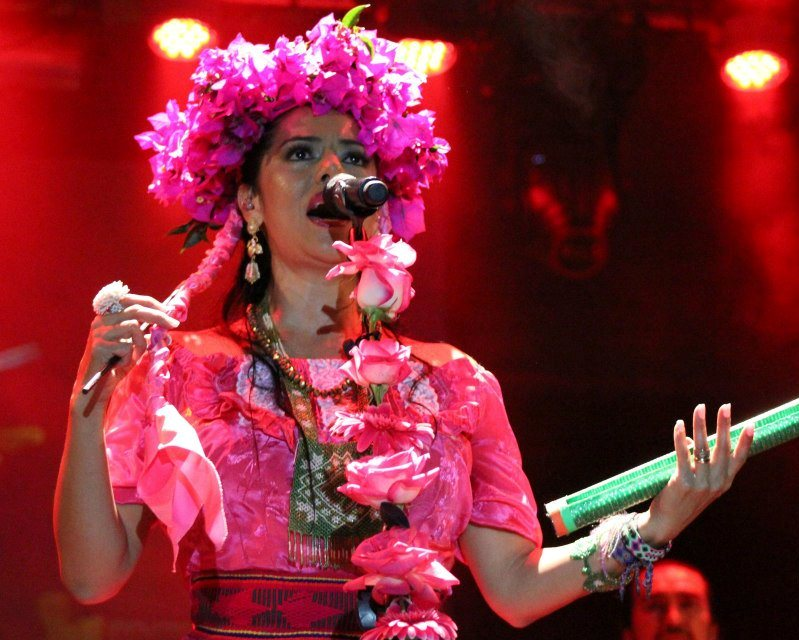 Lila Downs performing at Ferrocarril Museum of Oaxaca in 2012.